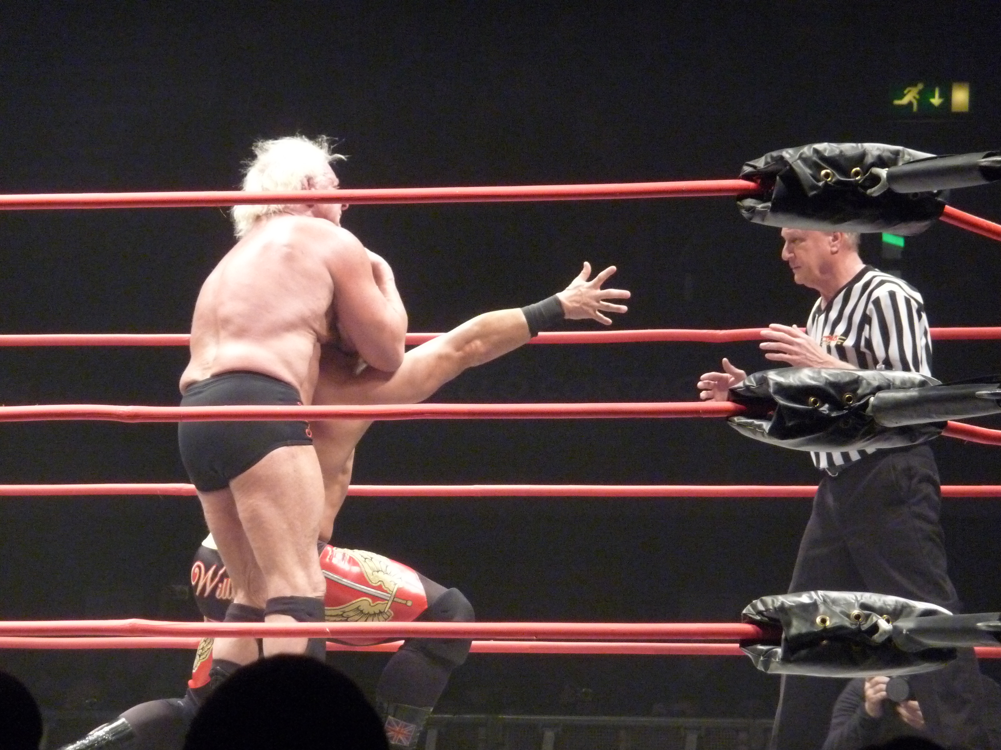 Pro-Wrestlers Ric Flair and Douglas Williams, January 2011